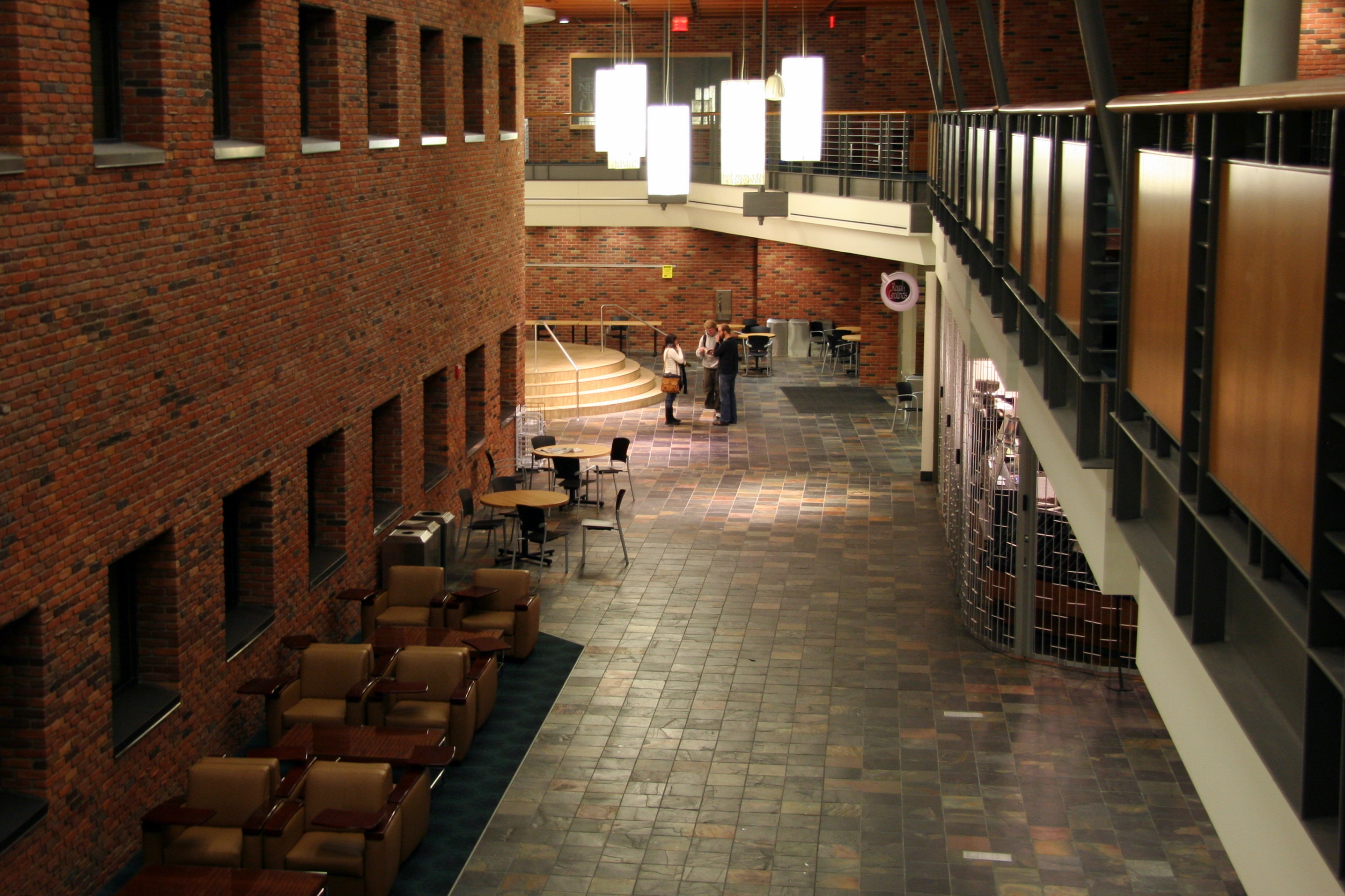 Royal Grounds Cafe and Student Lounge, Commons Building, Bethel University, Arden Hills, Minnesota, United States